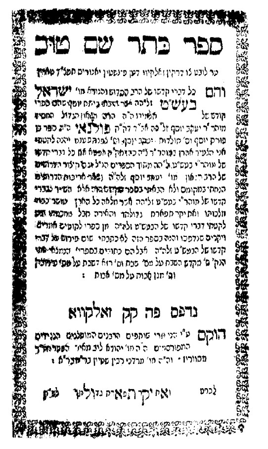 Keter Shem Tov, title page of an old edition (prior to 1900), work of Hasidic teachings by Rabbi Israel Baal Shem Tov